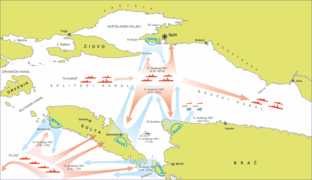 Sketch of the battle of Split channel between three Yugoslav Navy task forces and Croatian Navy coastal defenses on 14-15 November 1991.